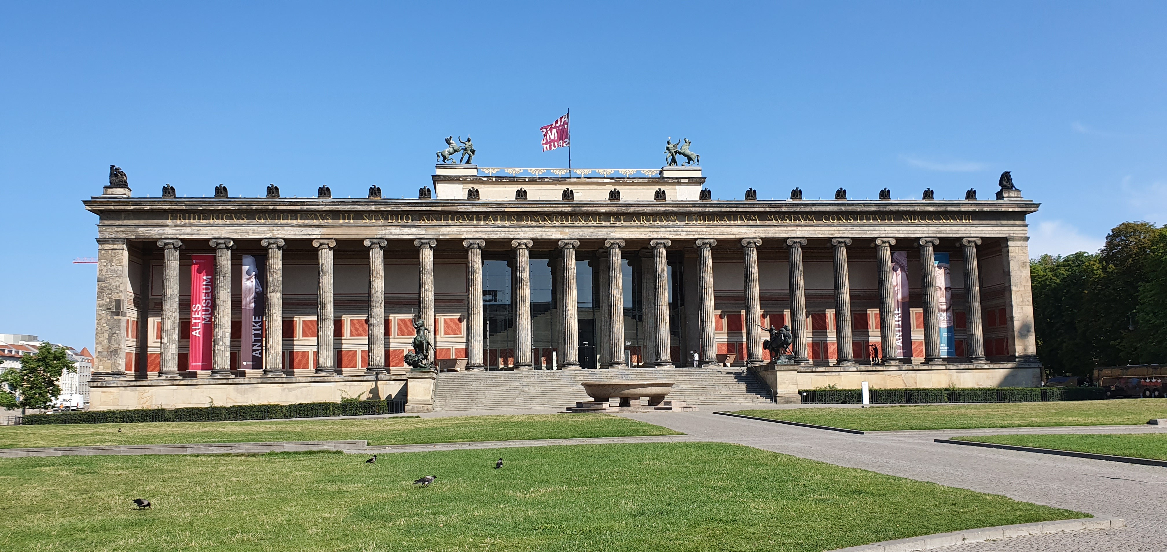 Exterior views of the Altes Museum by Karl Friedrich Schinkel in Berlin